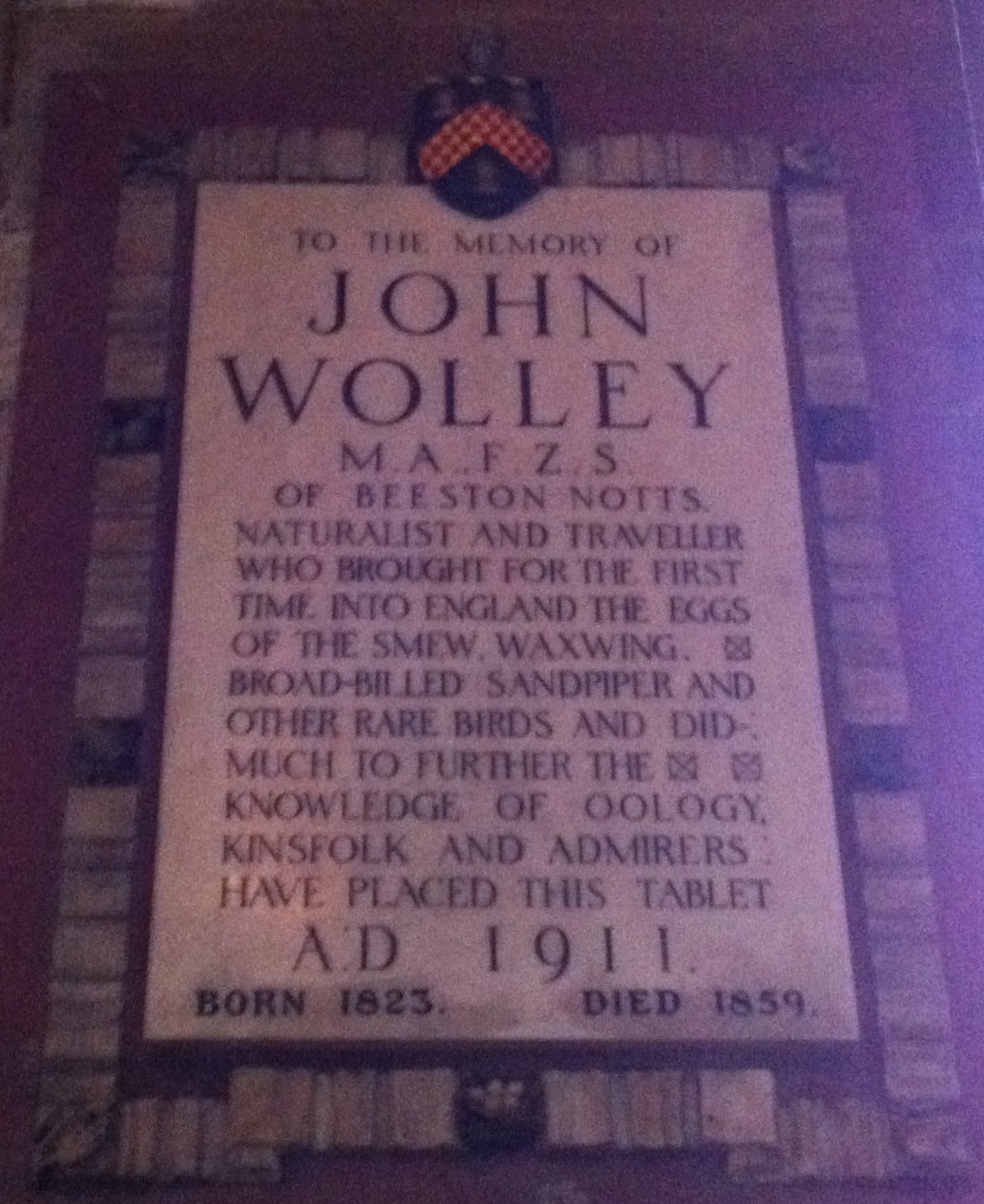 To the memory of John Wolley MA FZS of Beeston, Notts Naturalist and traveller who brought for the first time into England the eggs of the Smew, Waxwing, Broad-billed Sandpiper and other rare birds and did much to further the knowledge of oology, Kinsfolk and admirers have placed this tablet. AD 1911. Born 1823, Died 1859.